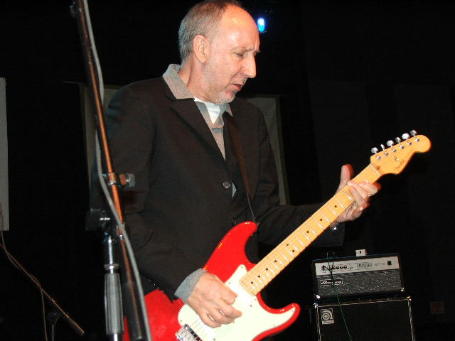 Ian McLagan & The Bump Band with special guest Pete Townshend. Photo by Ron Baker.